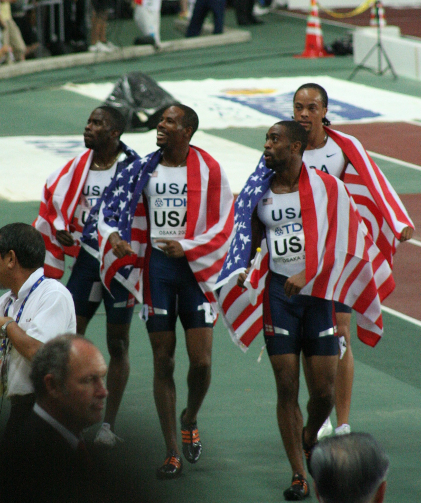 The US 4*100 metres relay team celebrating their success. Leroy Dixon, Darvis Patton, Tyson Gay, Wallace Spearmon